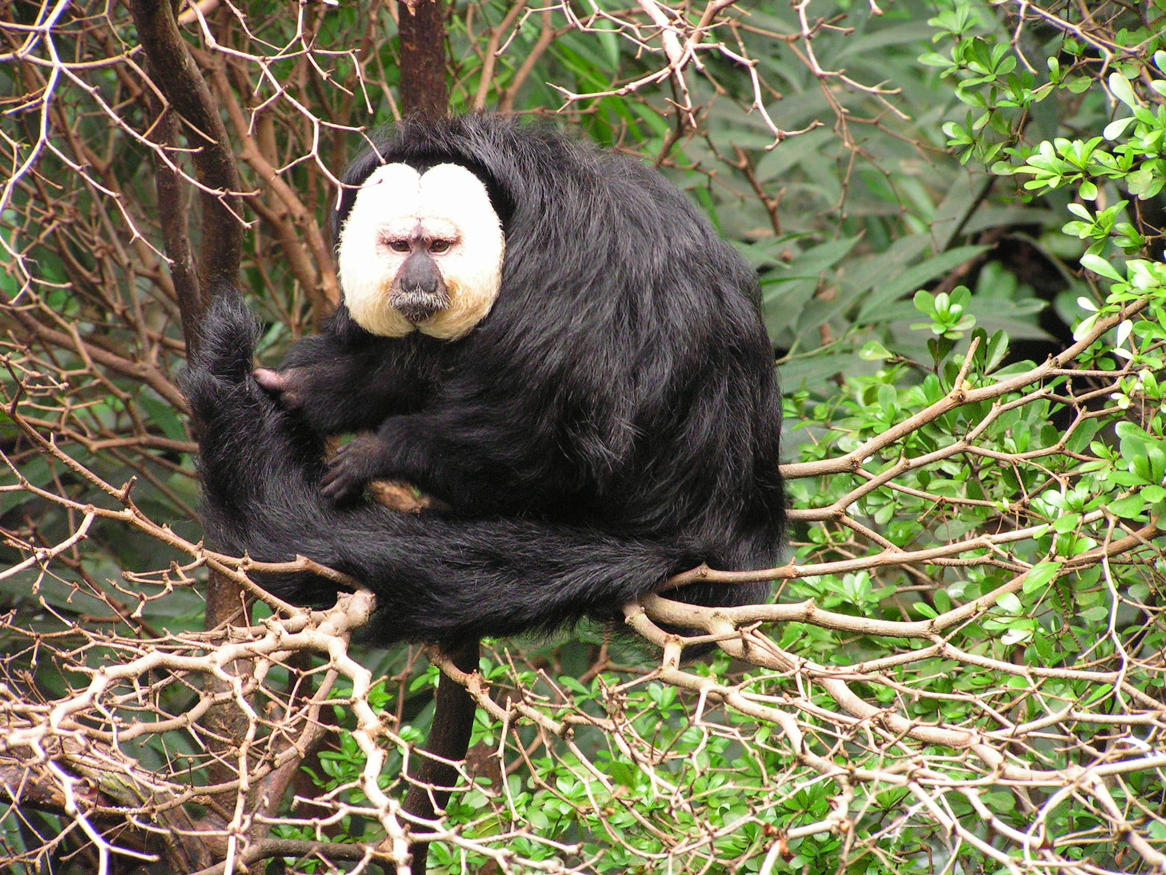 White-faced Saki (Pithecia pithecia), also known as the Guianan Saki and the Golden-faced Saki. Photo taken at the Dallas World Aquarium, Dallas, TX, USA, using a Konica Minolta DiMAGE Z2 camera. Minor color correction with Adobe Photoshop.